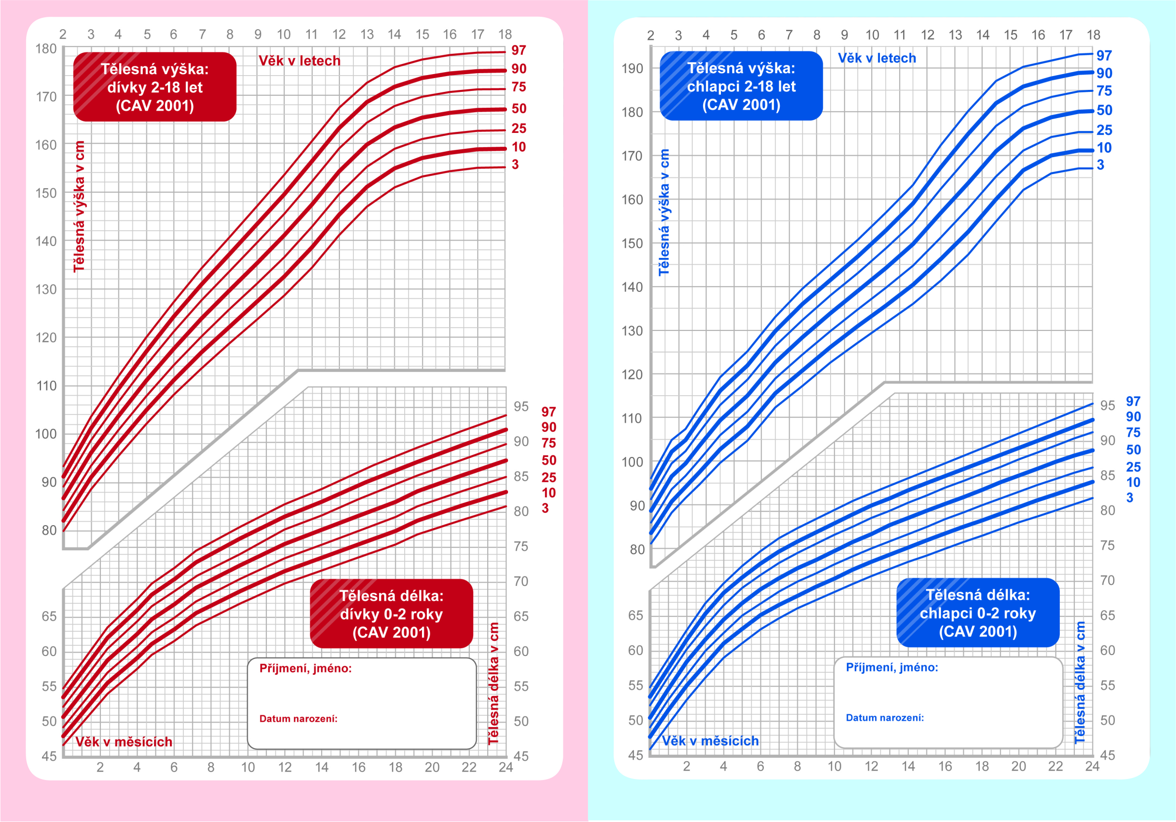 Tělesná výšk